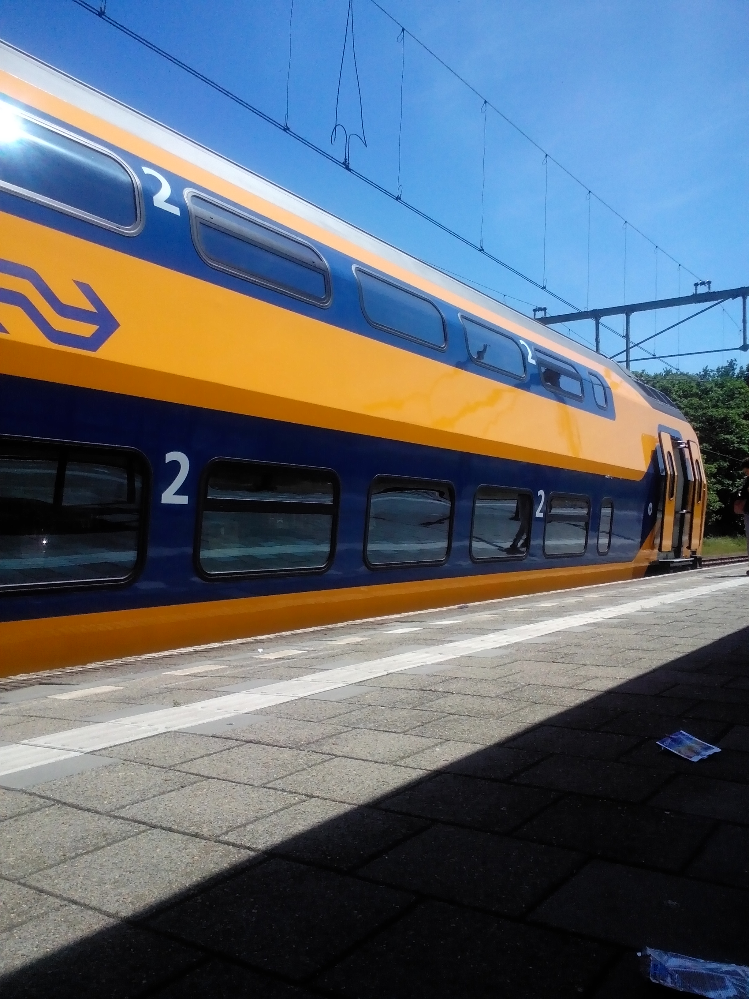 VIRMm1 8637 train at Bergen op Zoom railway station.